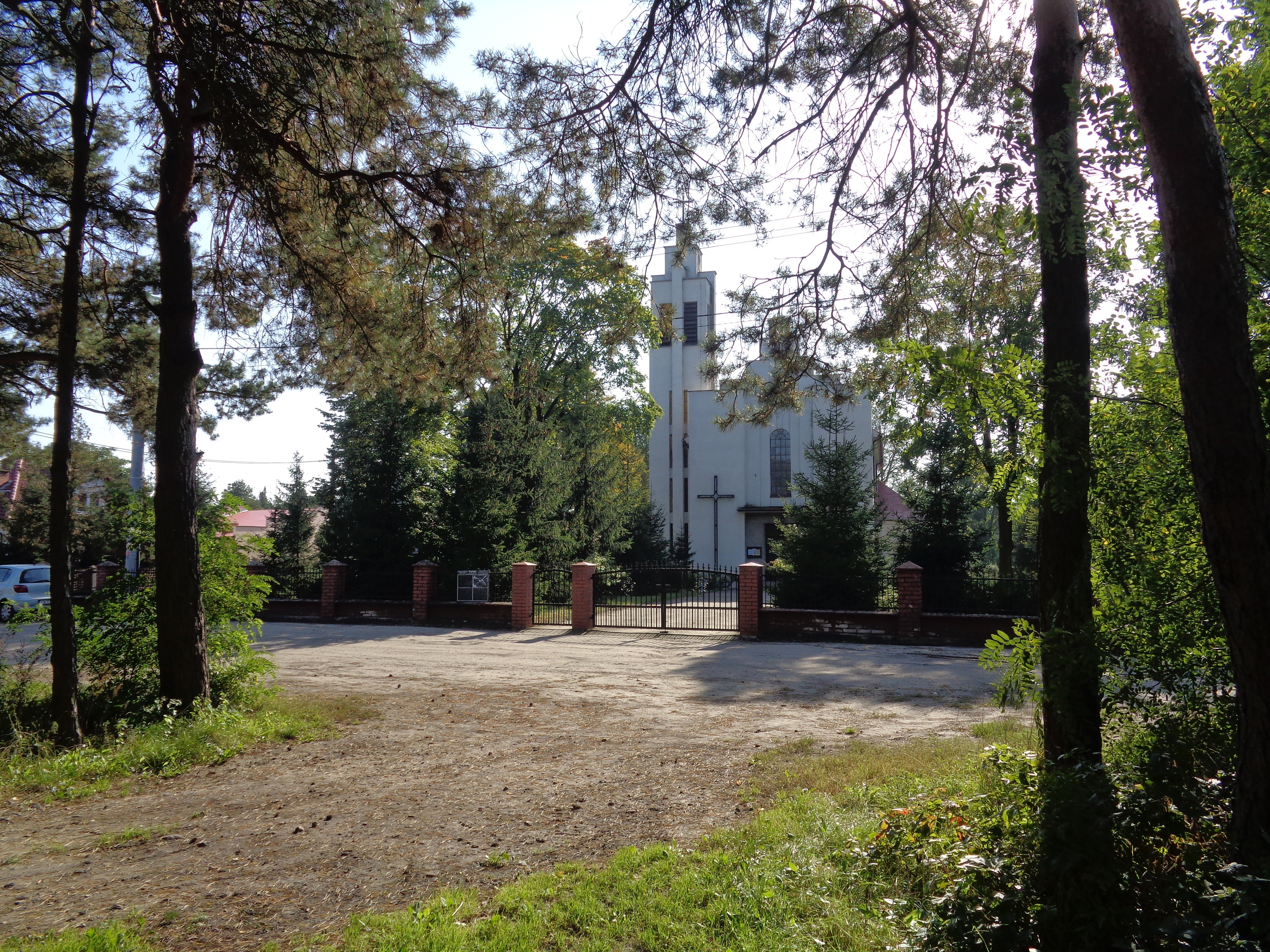 Church of the Christ the King in Włocławek, in Rózinowo district.